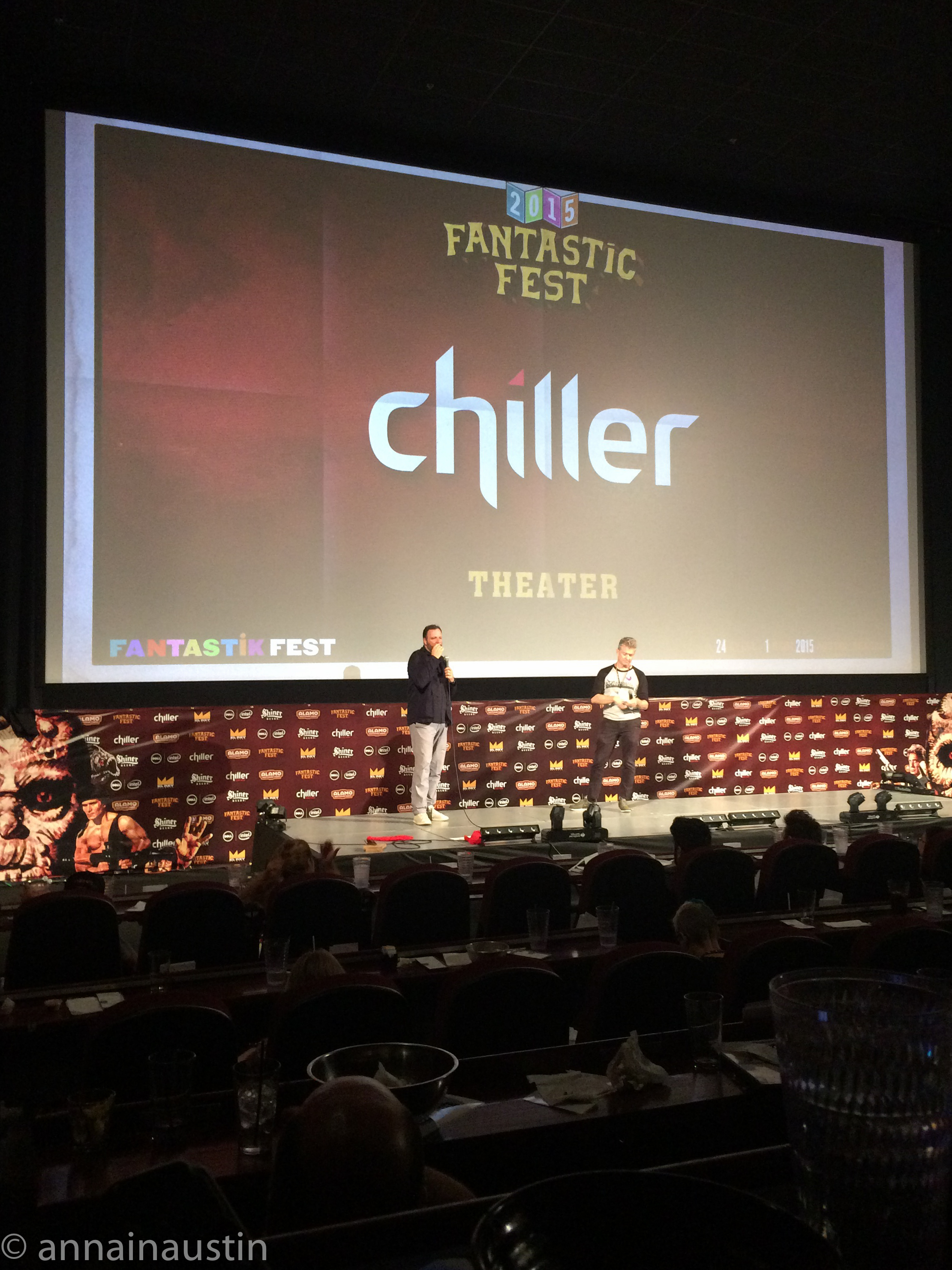 Yorgos Lanthimos and Tim League at the screening of THE LOBSTER at Fantastic Fest 2015